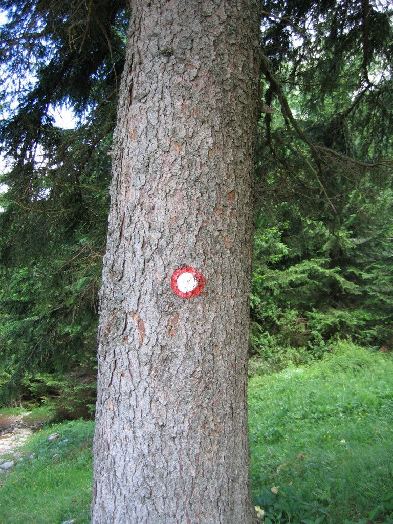 Trail blaze used in Slovenia.